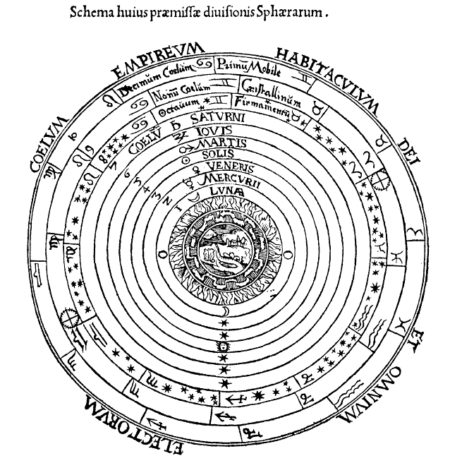 The scheme of the aforementioned division of spheres. · The empyrean (fiery) heaven, dwelling of God and of all the selected · 10 Tenth heaven, first cause · 9 Ninth heaven, crystalline · 8 Eighth heaven of the firmament · 7 Heaven of Saturn · 6 Jupiter · 5 Mars · 4 Sun · 3 Venus · 2 Mercury · 1 Moon